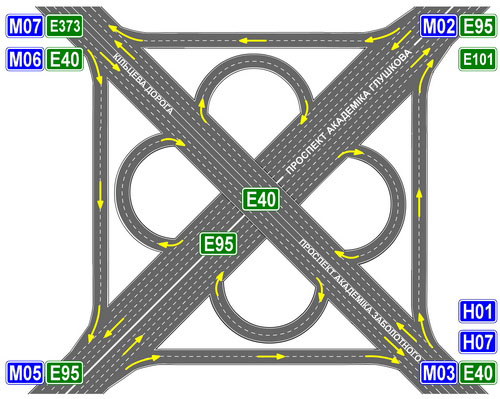 International Ukrainian Route M 05 (Kyiv)- Ukrainian